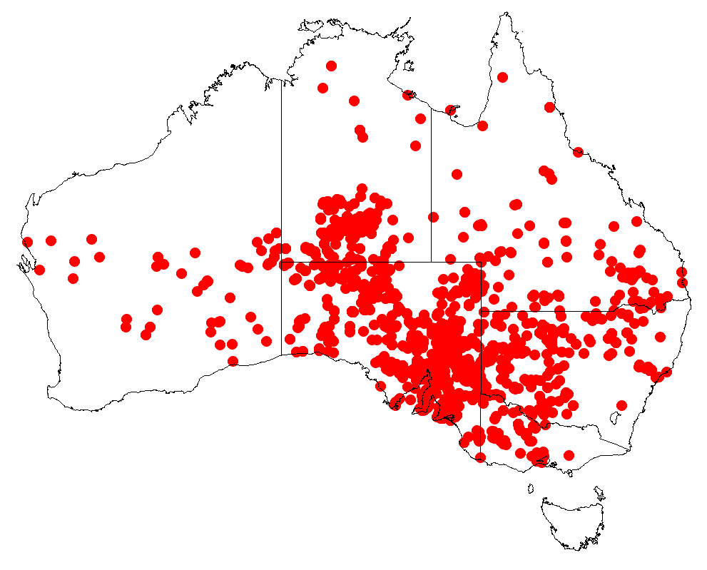 Lysiana exocarpi occurrence data downloaded from AVH, 30 September 2018